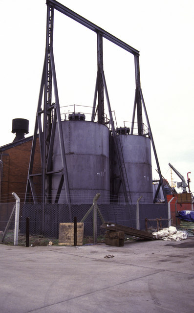 Goole Docks hydraulic power house, Goole, East Riding of Yorkshire, England.Two very nice hydraulic accumulators - now scrapped. The building behind contained the water hydraulic power pumps. We saw these through a window and I believe the plate on the control panel was that of Fullerton, Hodgart & Barclay. The building still stands and is seen in somebody else's photograph. This was a day trip with a gap and my suggestion in the car on the way up that we do Goole was not warmly received. However, we were not disappointed and the docks were well worth a visit.